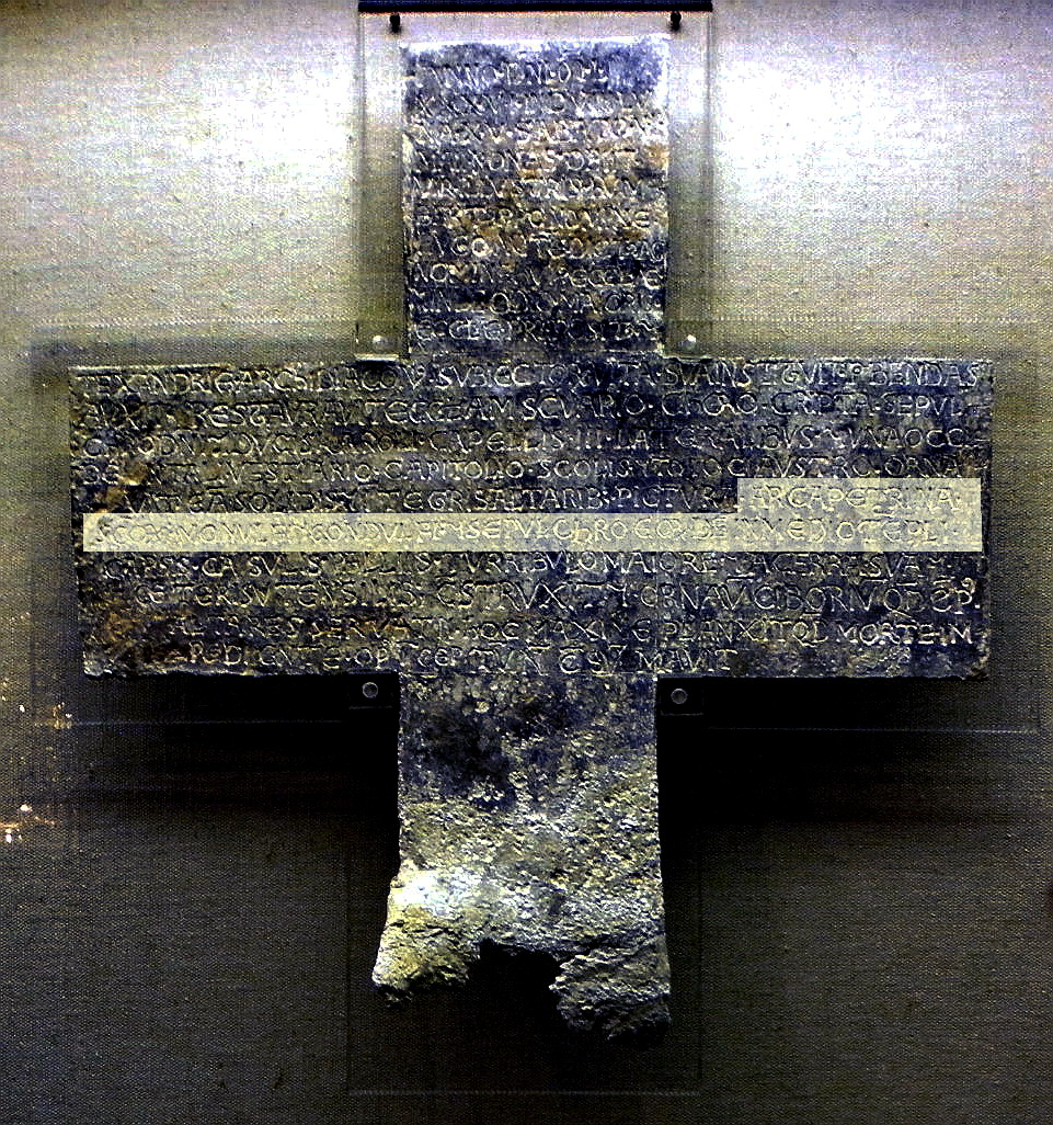 Grave cross found inside the tomb of provost Humbert, Treasury of the Basilica of Saint Servatius, Maastricht, the Netherlands. Humbert (also: Hugo) was provost of Saint Servatius in Maastricht, provost of Saint Lambert in Liège and archdeacon of Taxandria. He rebuilt parts of the church of Saint Servatius in Maastricht and was burried there in 1086. Highlighted is part of the text that mentions the erection of the Cenotaph of Monulph and Gondulph abover their grave in medio ecclesiae.